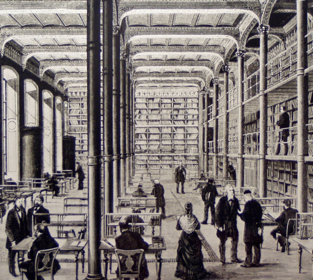 The reading room in the National Library of Sweden.